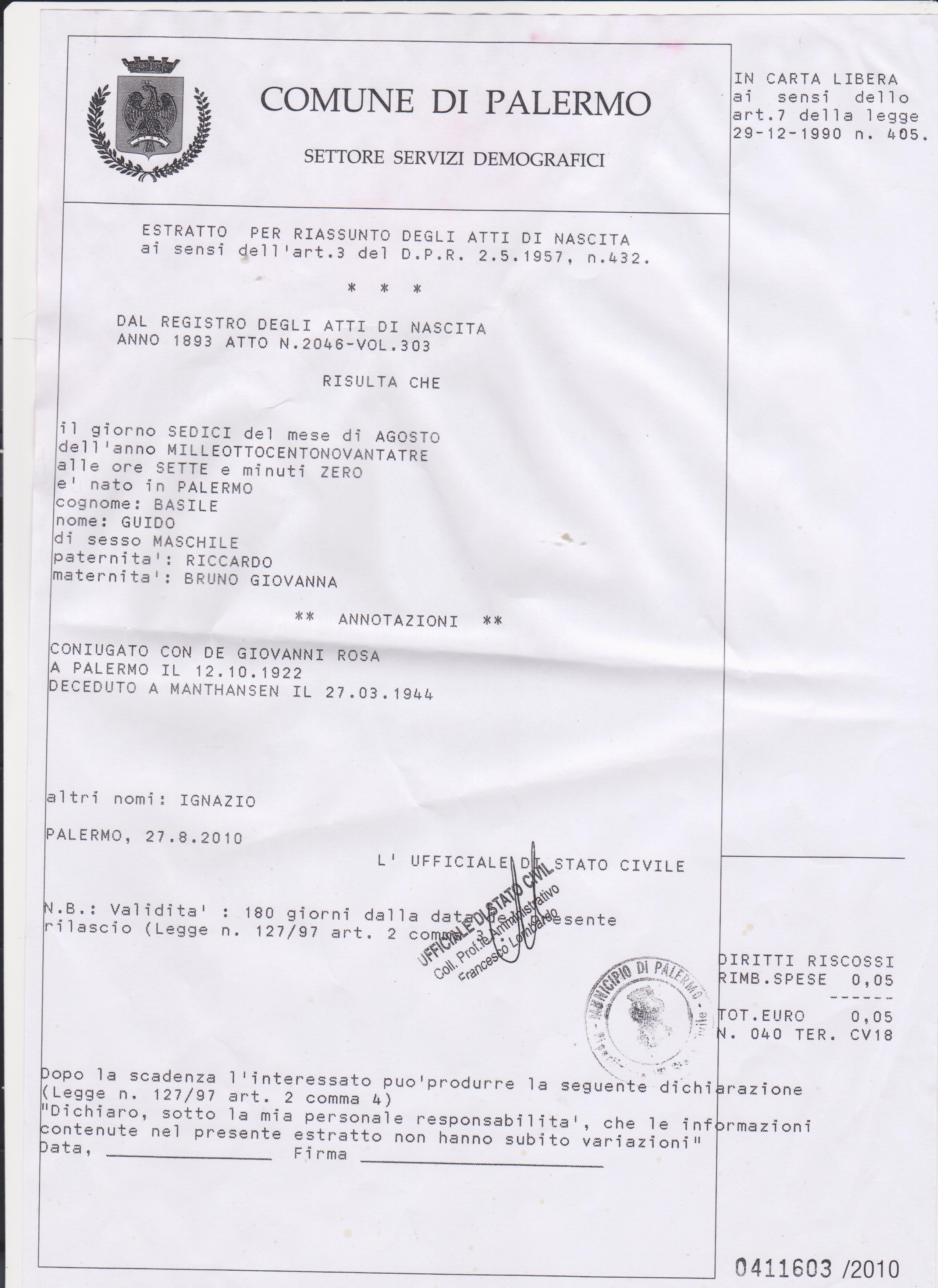 birth_certificate_Basile_Guido.jpg